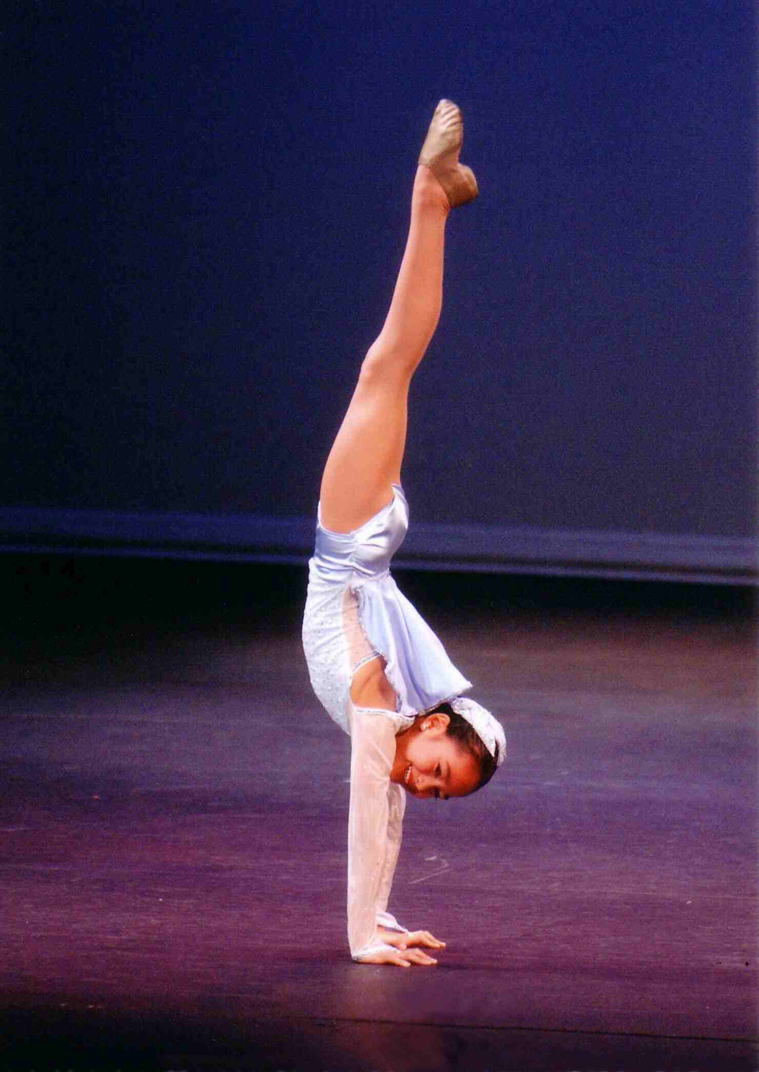 An acro dancer (Daria L) pauses in a handstand during a competitive dance performance before proceeding to handwalk across the stage.